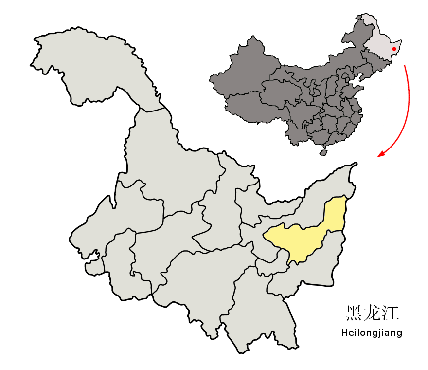 Location of Shuangyashan Prefecture (yellow) within Heilongjiang Province of China Map drawn in november 2007 using various sources, mainly : Heilongjiang Province administrative regions GIS data: 1:1M, County level, 1990 Heilongjiang Counties map from